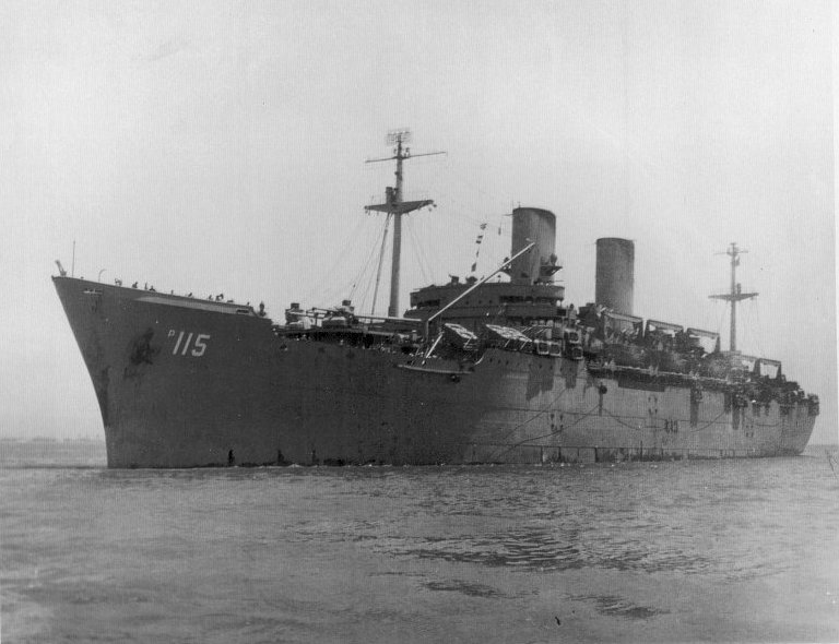 The U.S. Navy troop transport USS General George M. Randall (AP-115) underway, in 1945.